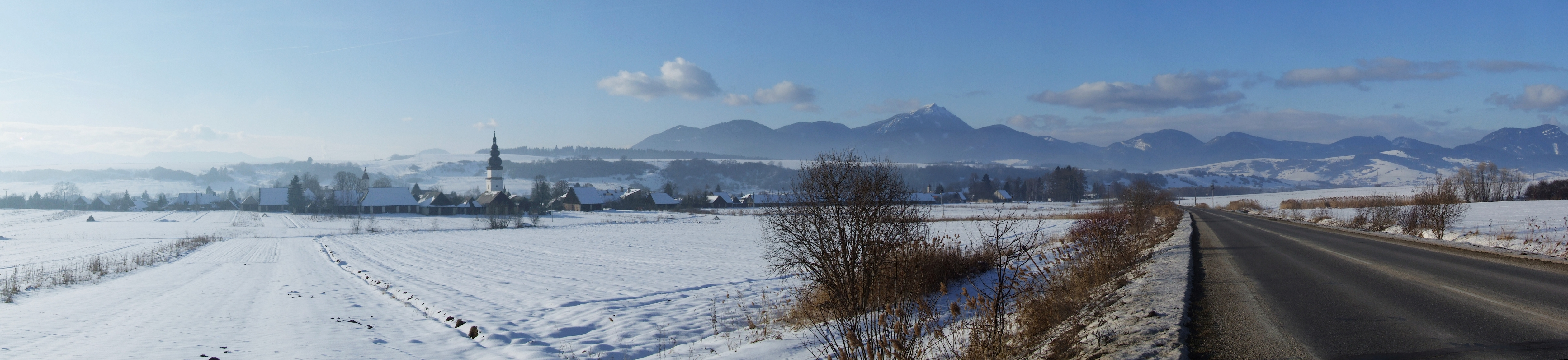 Panorama of Liptov, Slovakia. On the left village Partizánska Ľupča.